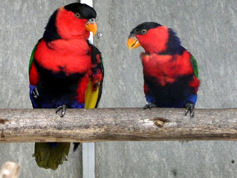 Black-capped Lory, (Lorius lory) in captivity in the Parrot's Garden (Jardim dos Louros), in the Botanical Garden of Funchal, Madeira island, Portugal.